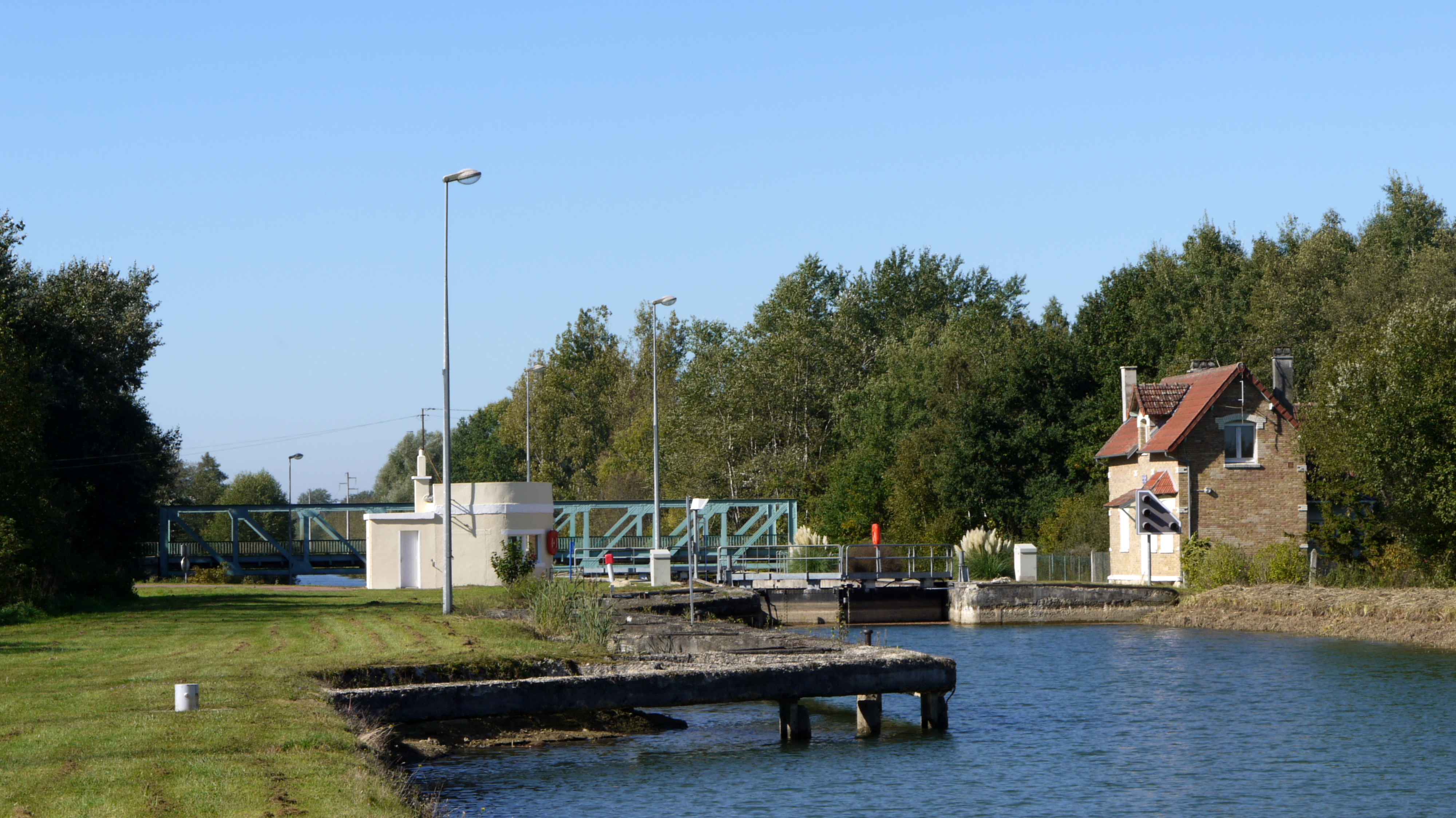 Lock on the Canal de l'Oise à l'Aisne near Chavignon, Aisne, France